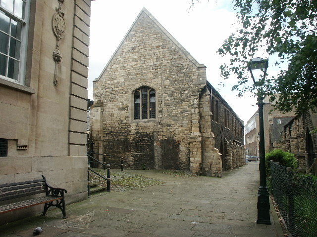 Greyfriars, Lincoln. The final day of its then role as a Museum/Heritage centre.